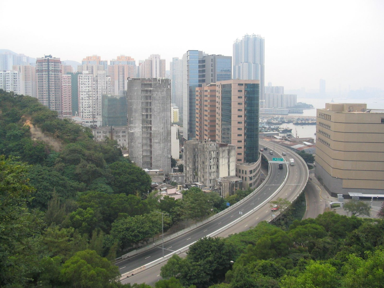 東區走廊近zh:阿公岩一帶 Island Eastern Corridor at A Kung Ngam